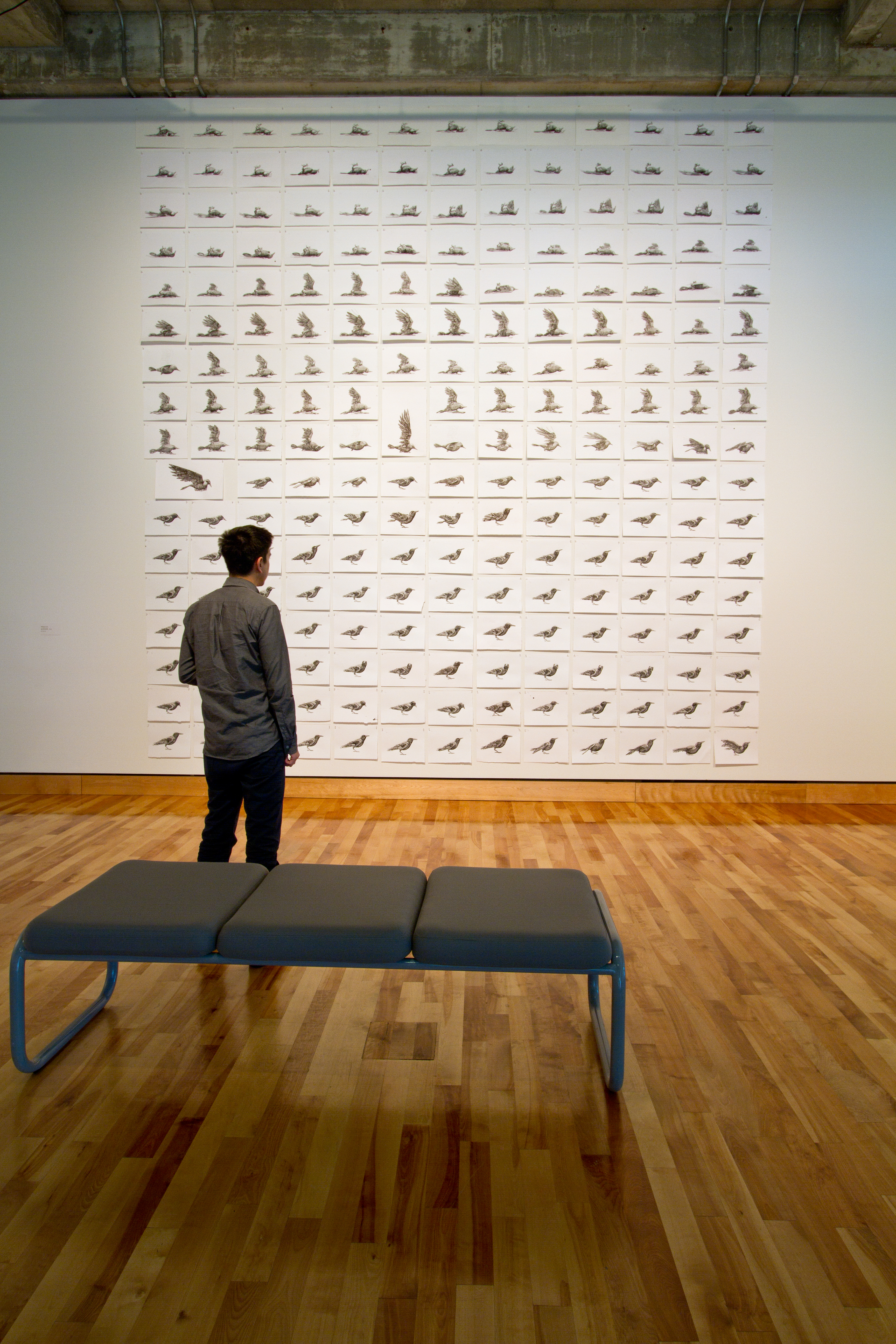 Hand drawn pen and ink stills that form the interactive animation 'Silence